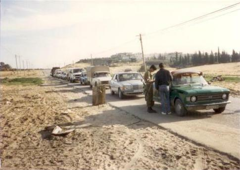 IDF soldier checking a car at a road block near Jabalia during the first intifada